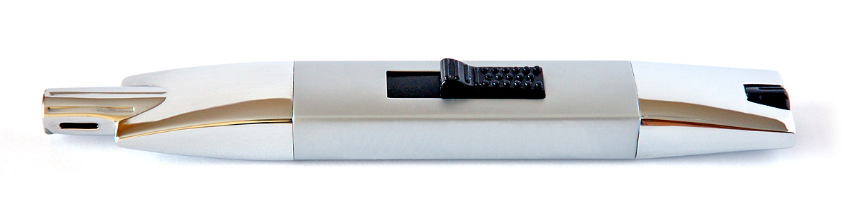 This image shows a wand lighter.